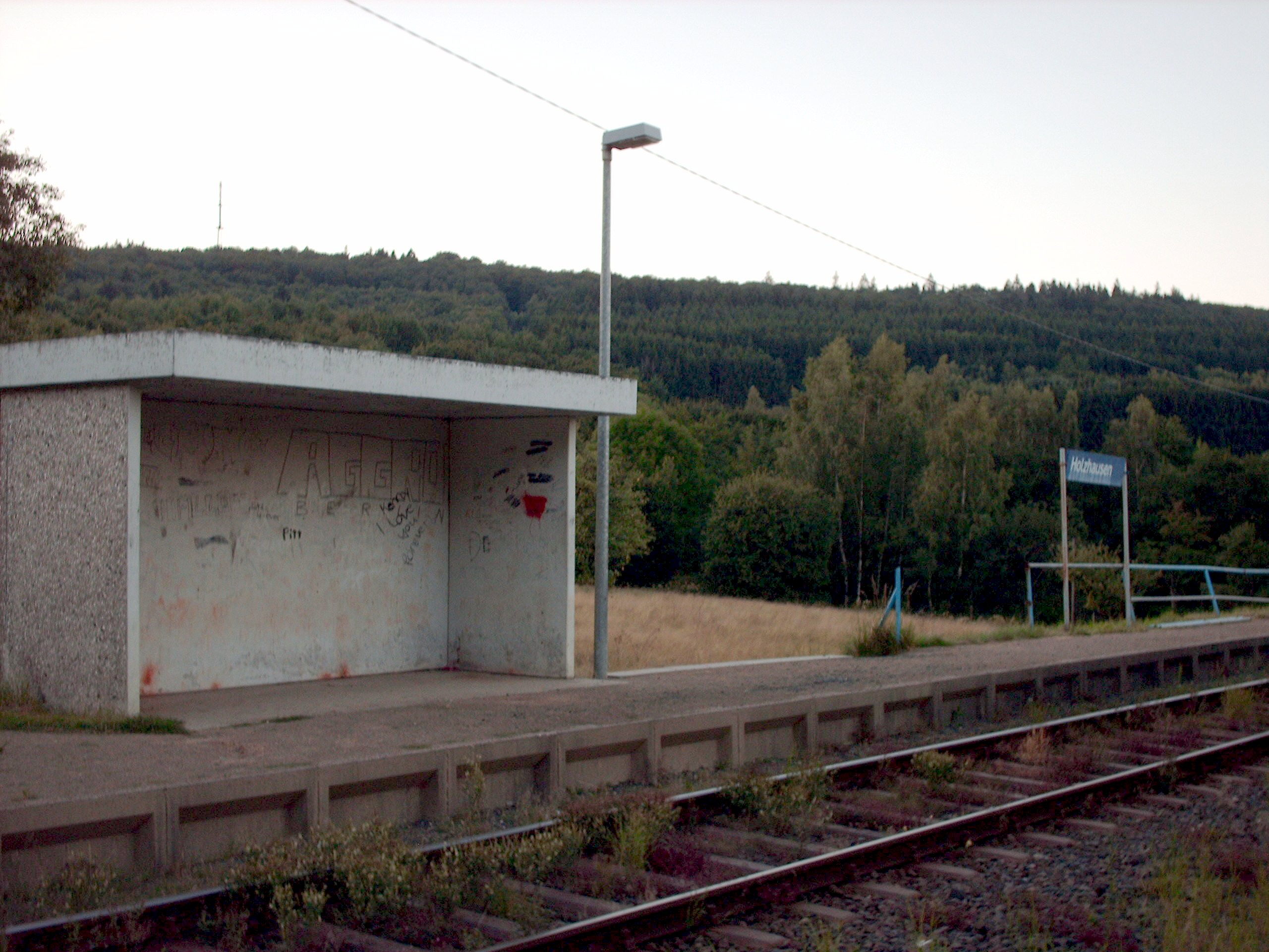 Holzhausen station, Burbach, Germany check usage